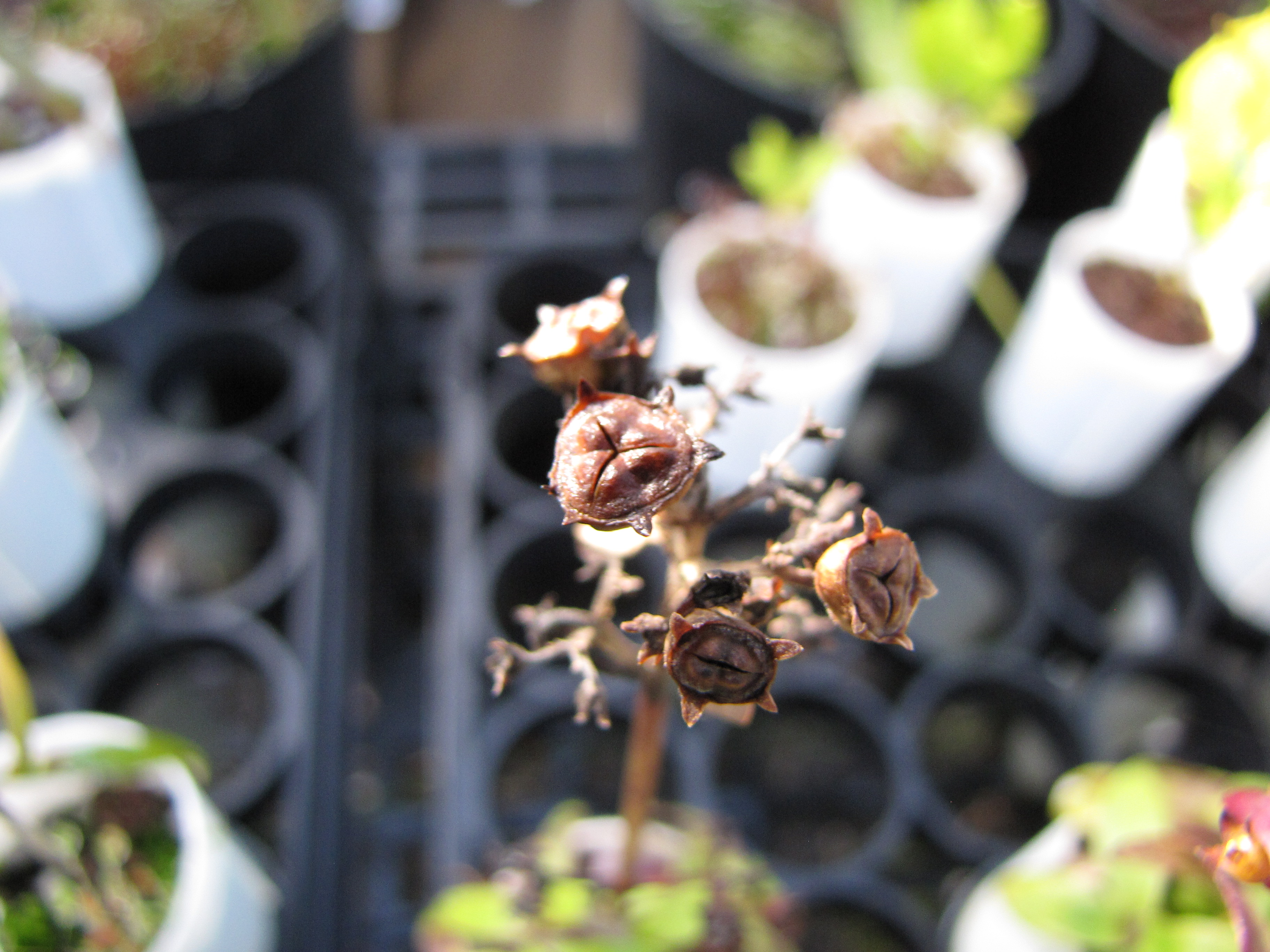 Kadua centranthoides (Manono) Seed capsules at Greenhouse Haleakala National Park, Maui, Hawaii.